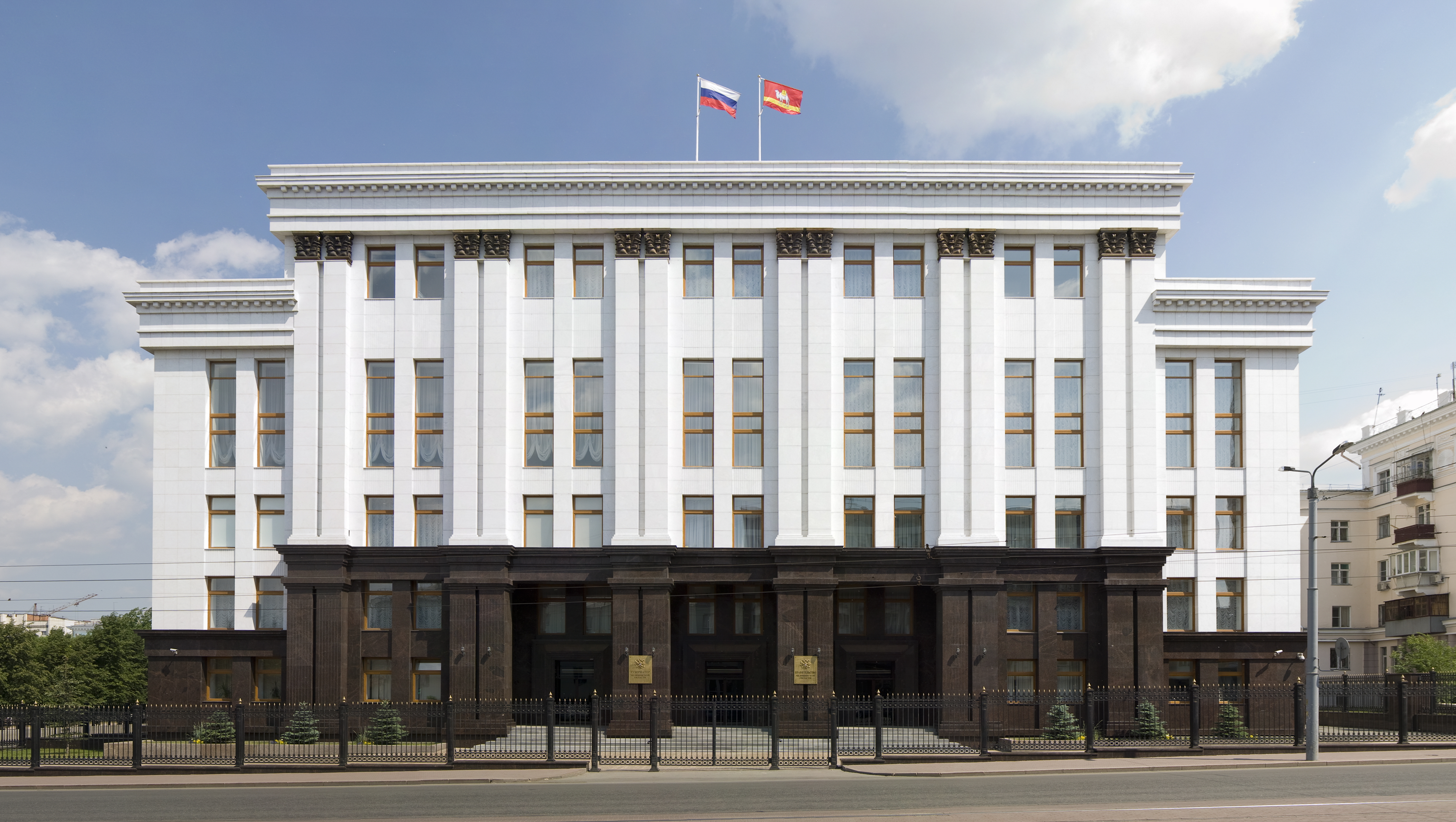 Governor's residence, Chelyabinsk Oblast, Russia